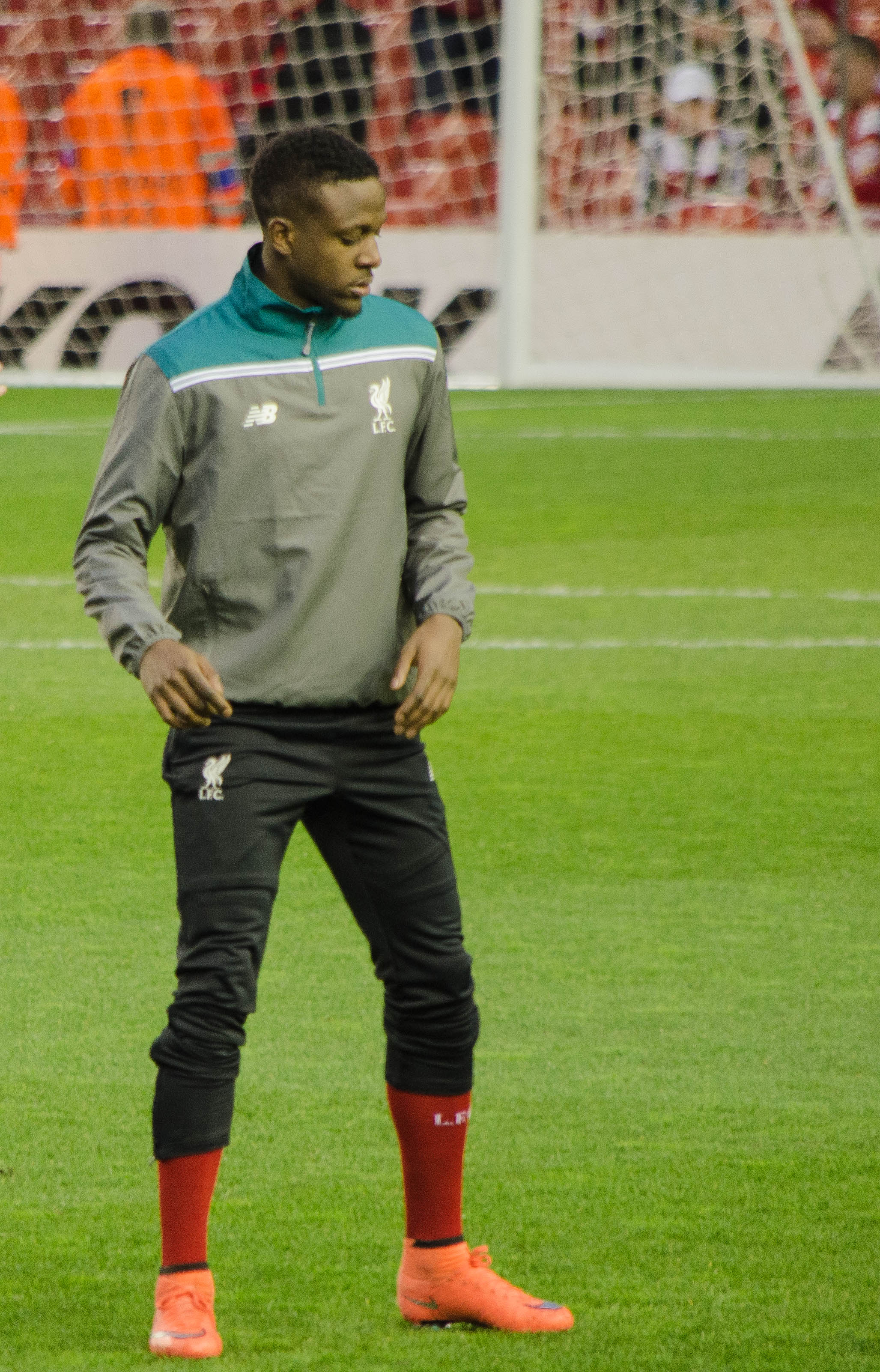 Divock Origi warming-up for Liverpool FC before Europa League clash against FC Augsburg on 25 February 2016.